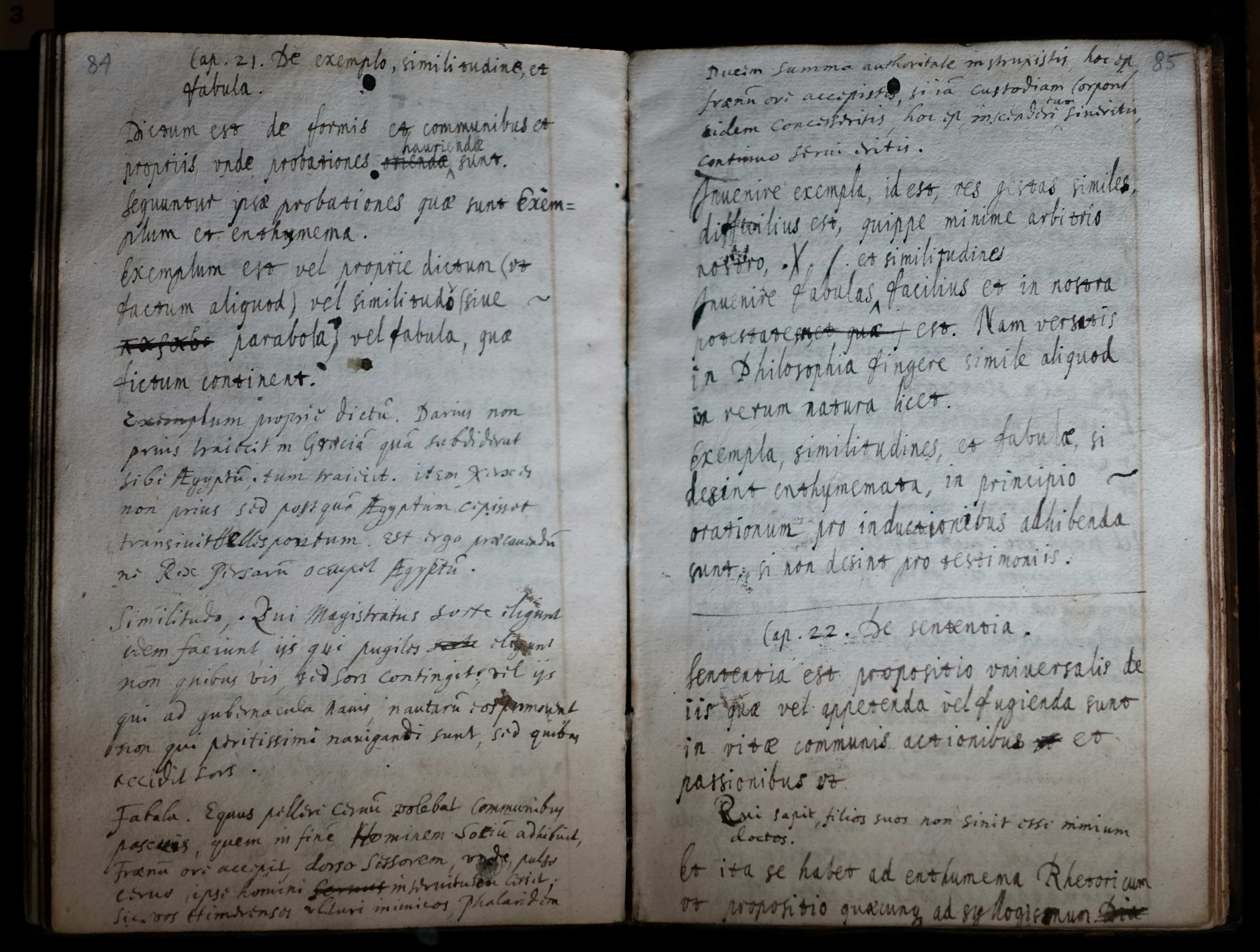 Item displayed in Chatsworth House - Derbyshire, England.